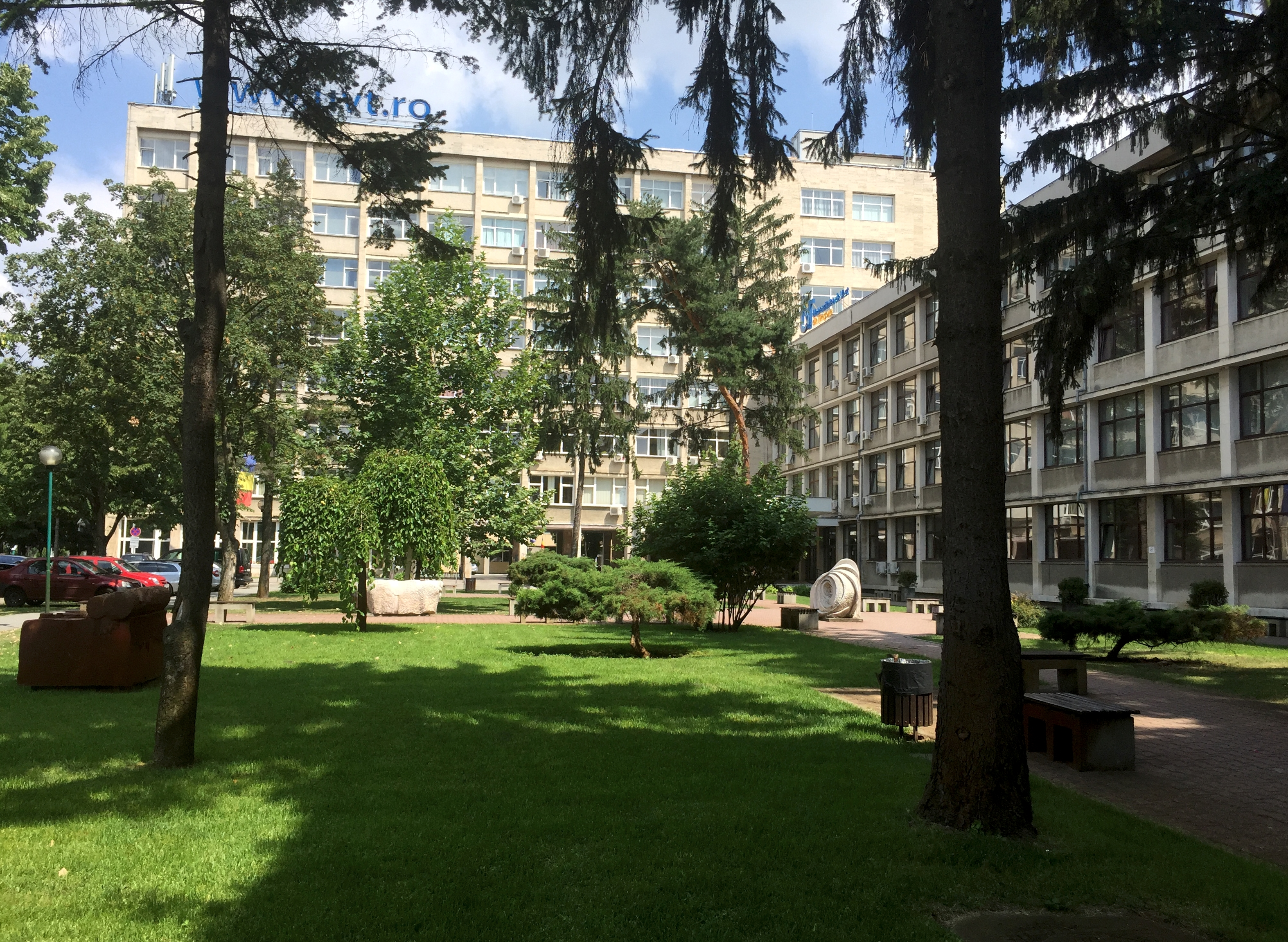 West University of Timisoara